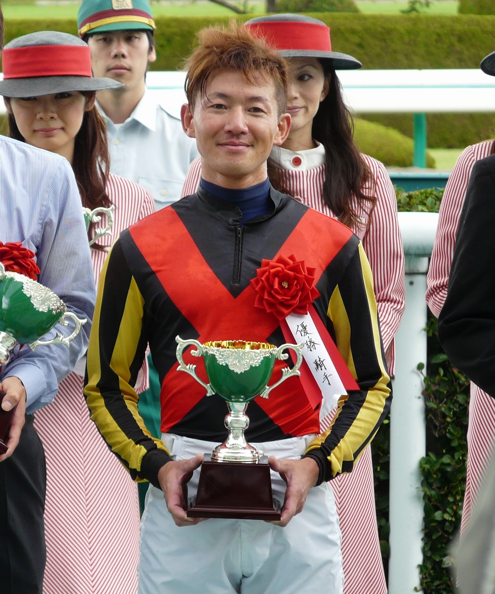 Koshi-Yamamoto20110919